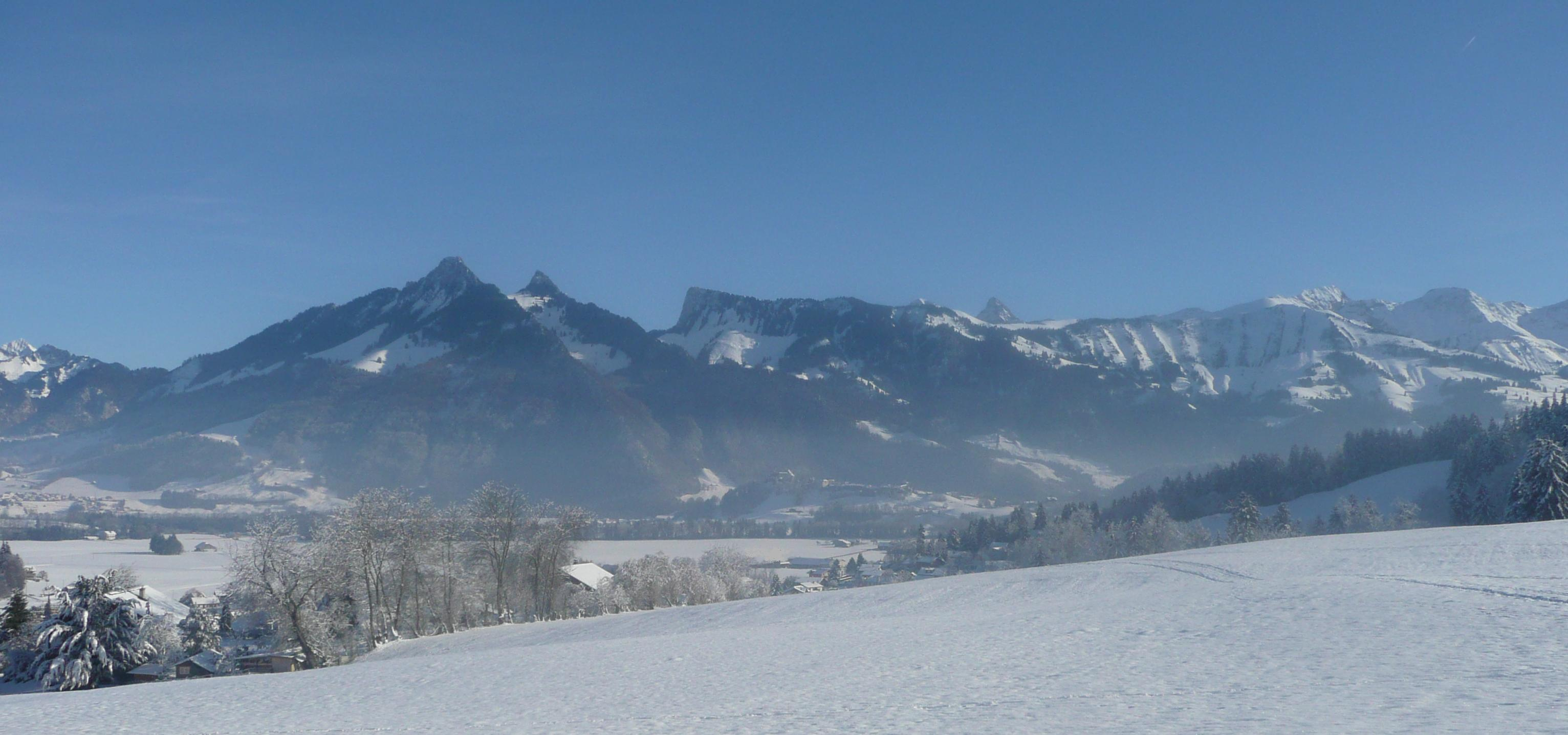 Le Pâquier-Montbarry in winter